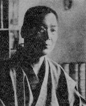 Mr. Takatarō Kimura.